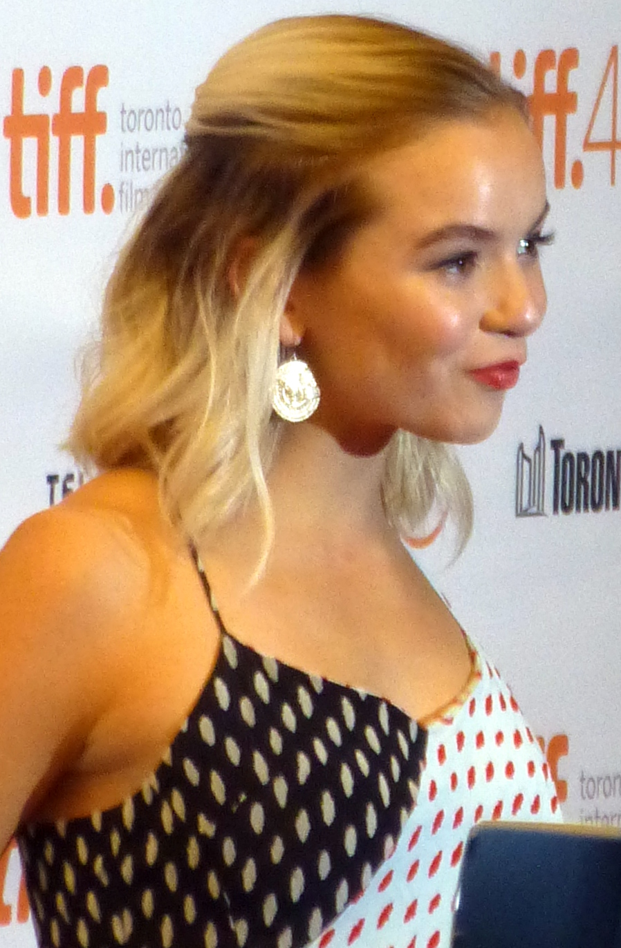 Morgan Saylor at the premiere of Being Charlie, 2015 Toronto Film Festival